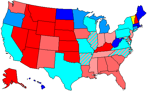 Summary of party control of U.S. house seats in the 105th United States Congress following election. Stripes indicate a tie between two or more parties. Legend: 80.1-100% Democratic seat majority 60.1-80% Democratic seat majority 60% or less Democratic seat plurality 60% or less Republican seat plurality 60.1-80% Republican seat majority 80.1-100% Republican seat majority 80.1-100% Independent seat majority